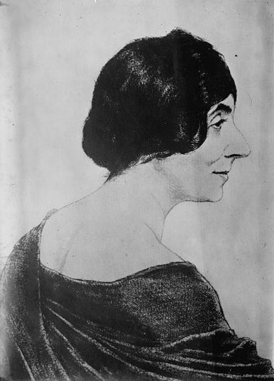 Wanda Landowska (1879 – 1959), Polish harpsichordist and pianist